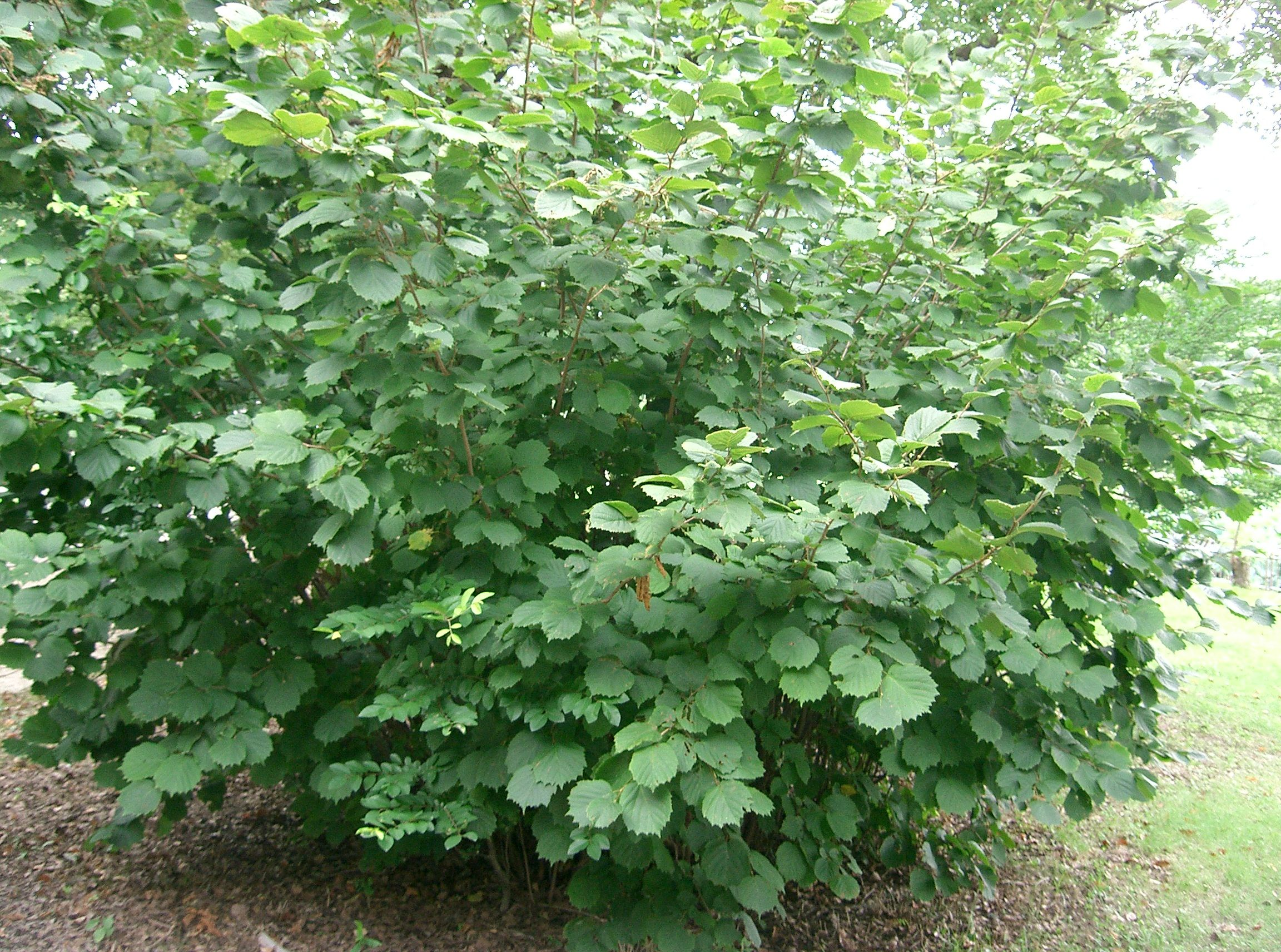 Scientific name Corylus heterophylla var. thunbergi (=C. heterophylla var. japonica)